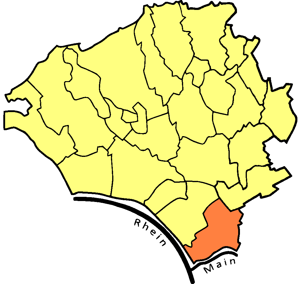 Map of Wiesbaden showing the location of Kostheim